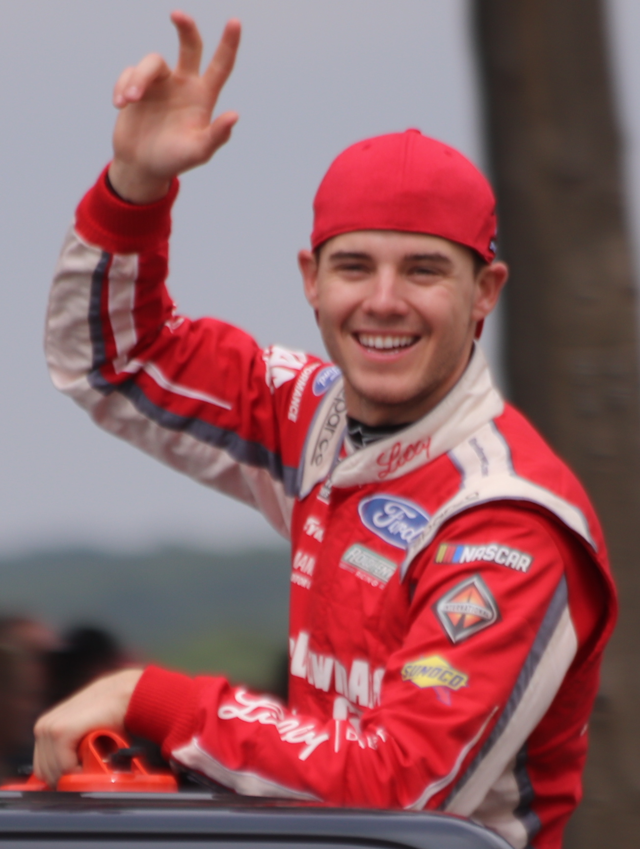 NASCAR Xfinity Series driver Ryan Reed waves to fans at the 2018 Road America race.